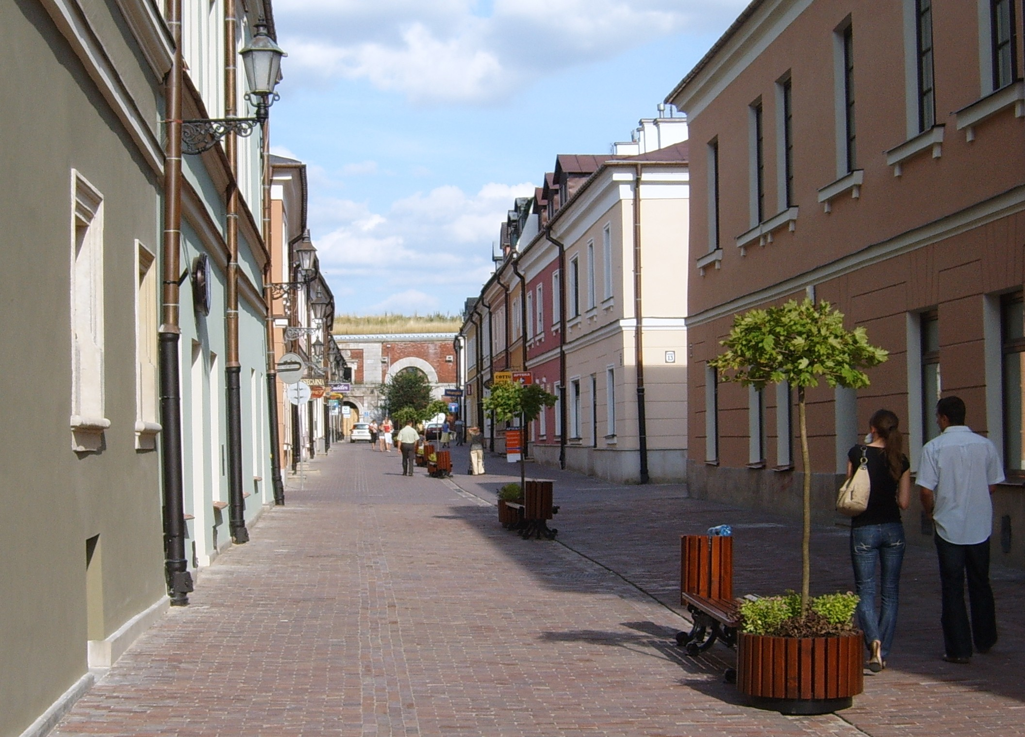 Grodzka Street in The Old Town in Zamość